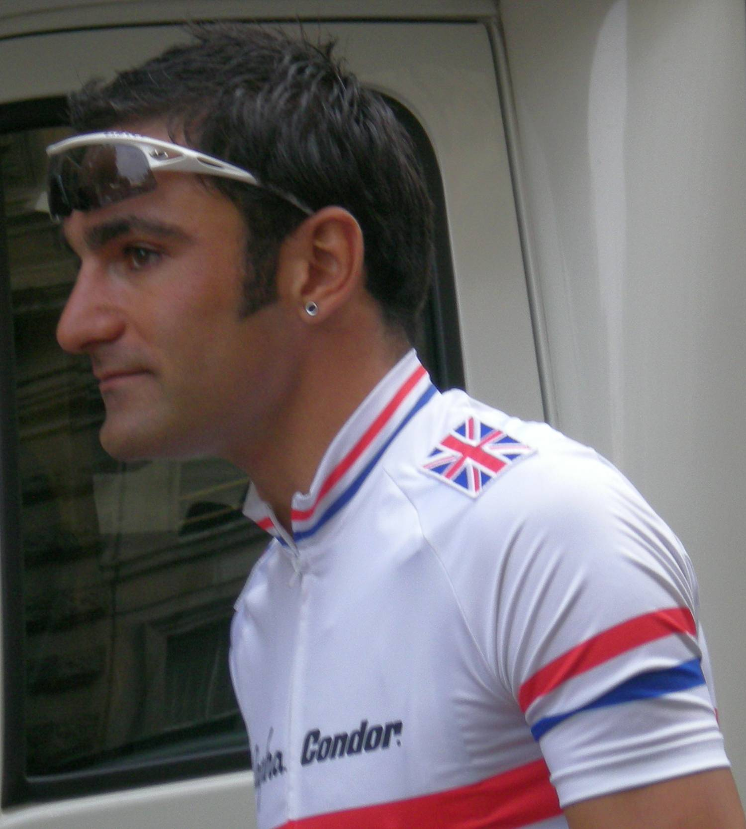 Kristian House at 2009 Tour of Britain